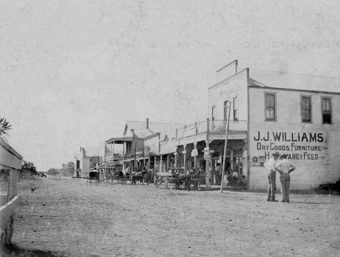 Title: Main Street, Kingsville, Texas Creator: Unknown Date: September 7, 1908 Part of: The George W. Cook Dallas/Texas Image Collection Series: Series 3: Photographs Series 3, Subseries 3, Postcards Series 3, Subseries 3d, RPPC, Texas Place: Kingsville, Kleberg County, Texas Description: This real photographic postcard shows Main Street in Kingsville, Texas. Physical Description: 1 photographic print (postcard): gelatin silver, 9 x 14 cm File: a2014_0020_3_3_d_0648_r_kingsvillemain_opt.jpg Rights: Please cite DeGolyer Library, Southern Methodist University when using this file. A high-resolution version of this file may be obtained for a fee. For details see the web page. For other information, . For more information and to view the image in high resolution, see